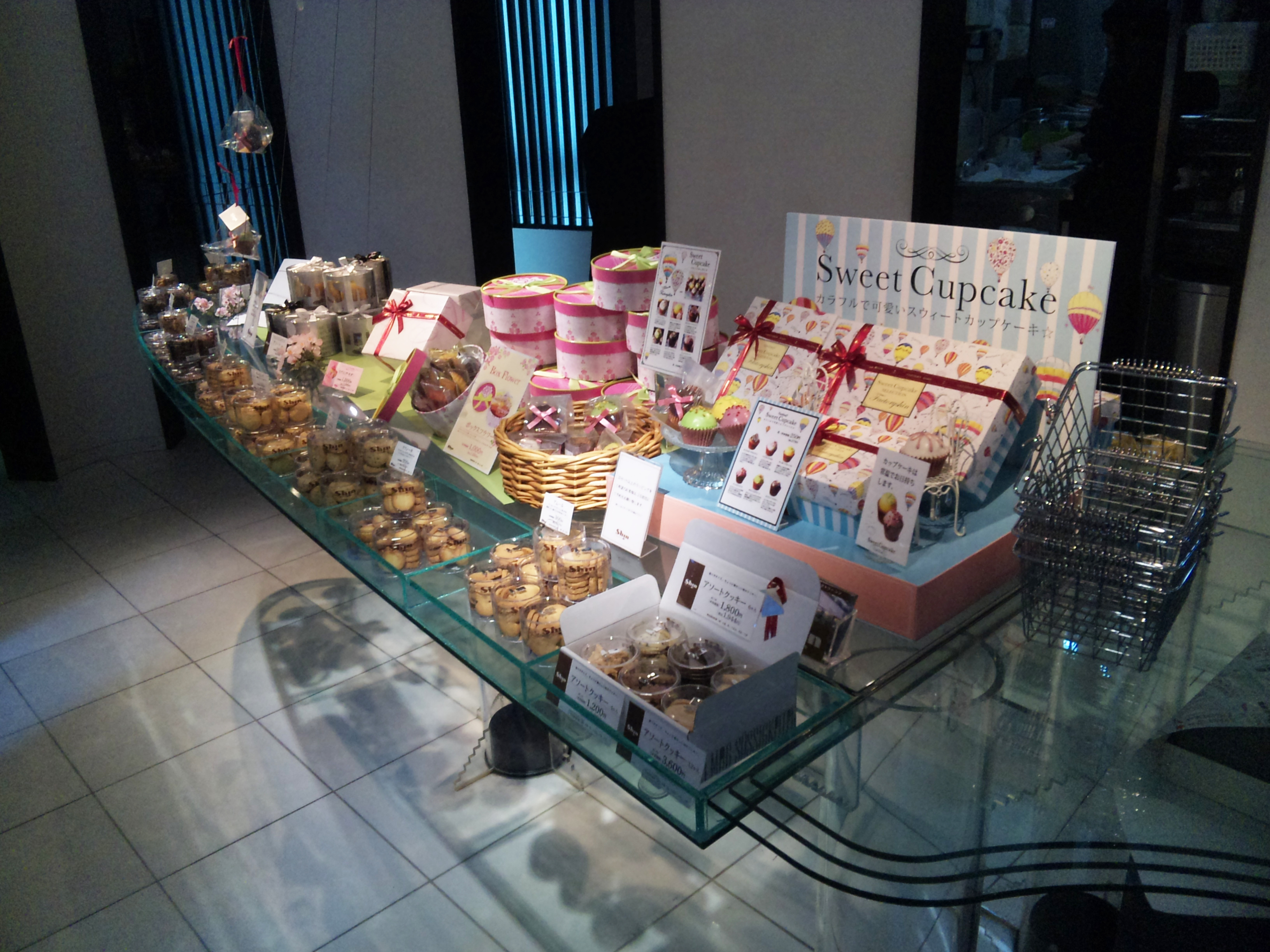 2015-04-11 Sincerus Co., Ltd Gaikan Tennai 4